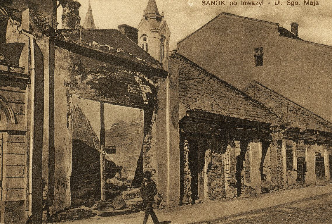 3 Maja Street in Sanok